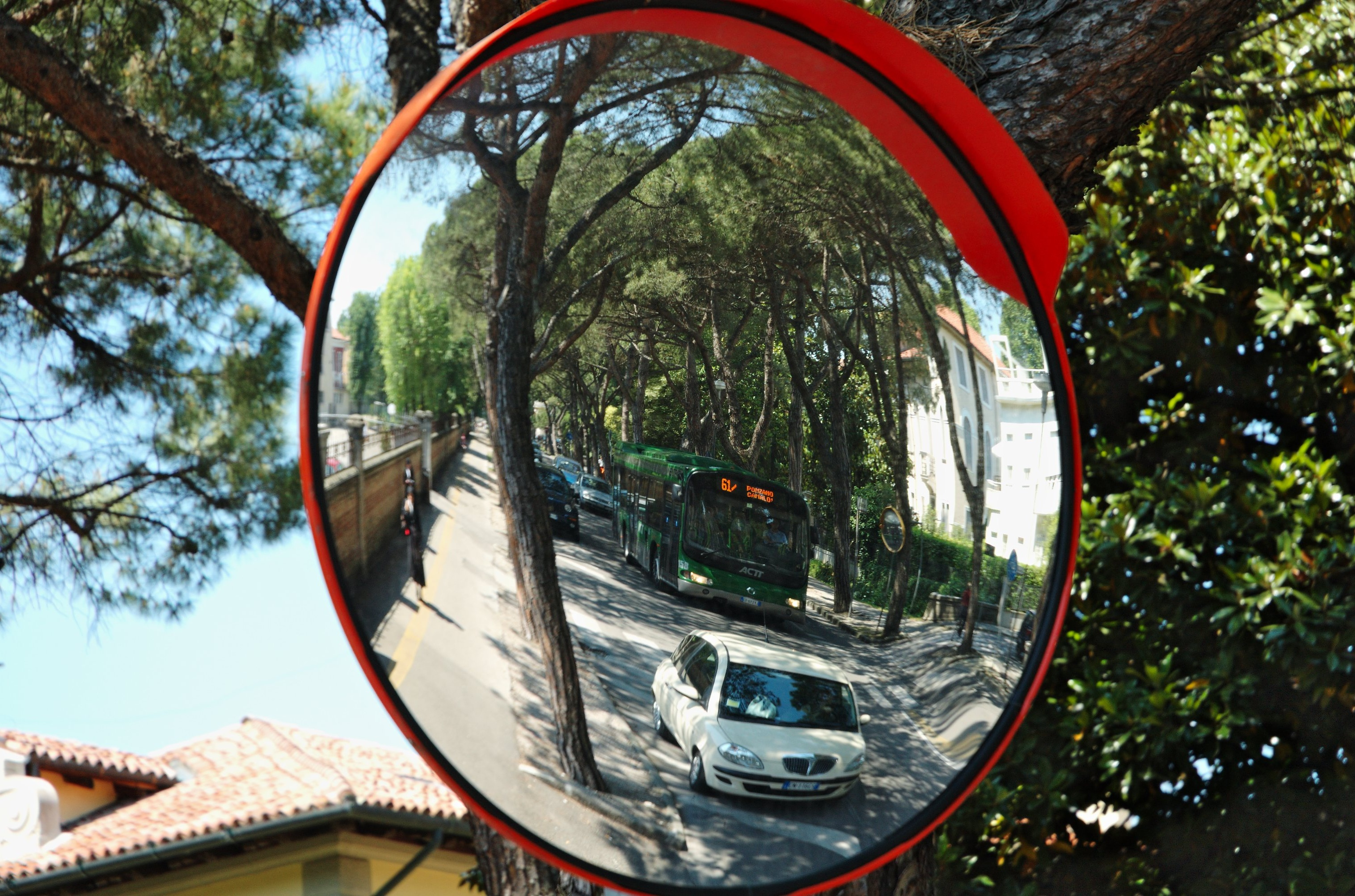 Street mirror in Viale Cesare Battisti, Treviso. Bus 158 ACTT (now MOM - Mobilità di Marca) serving on Line 61/ towards Ponzano, Camalò.